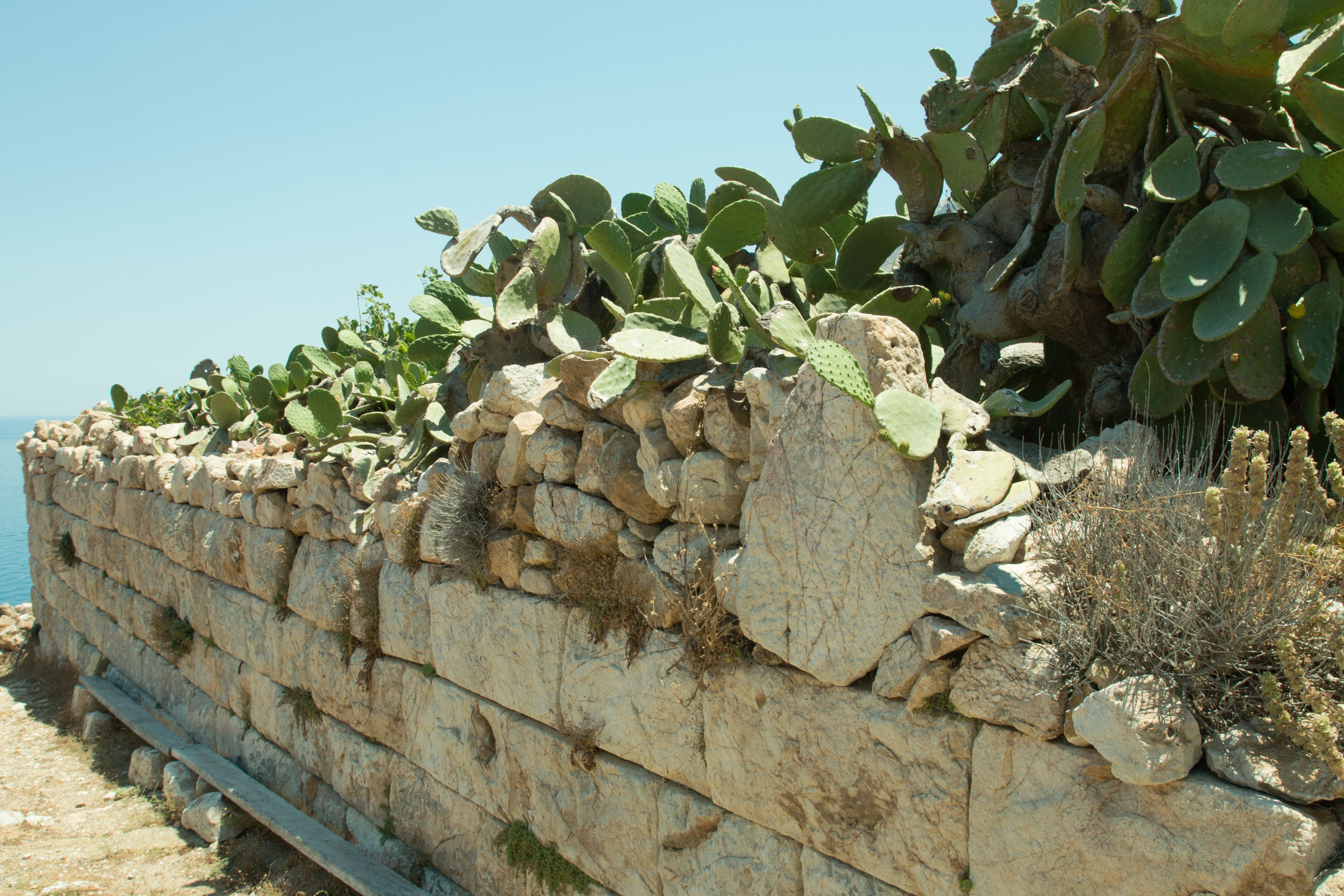 Peribolos (outer wall) of the sacred area of the Temple of Apollo Aigletes, northeast of the Zoodochos Pigi monastery. Anafi.